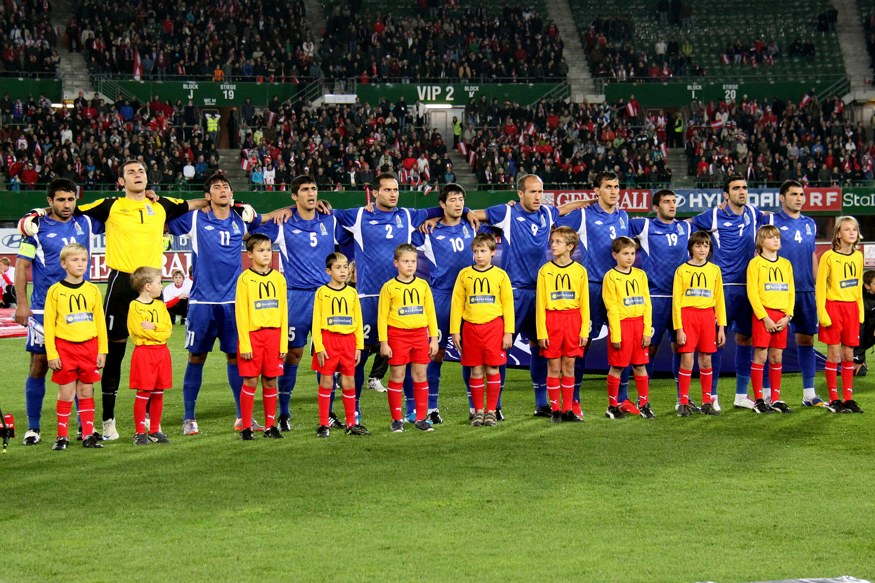 Azerbaijan national football team against Austria in Austria (0:3)